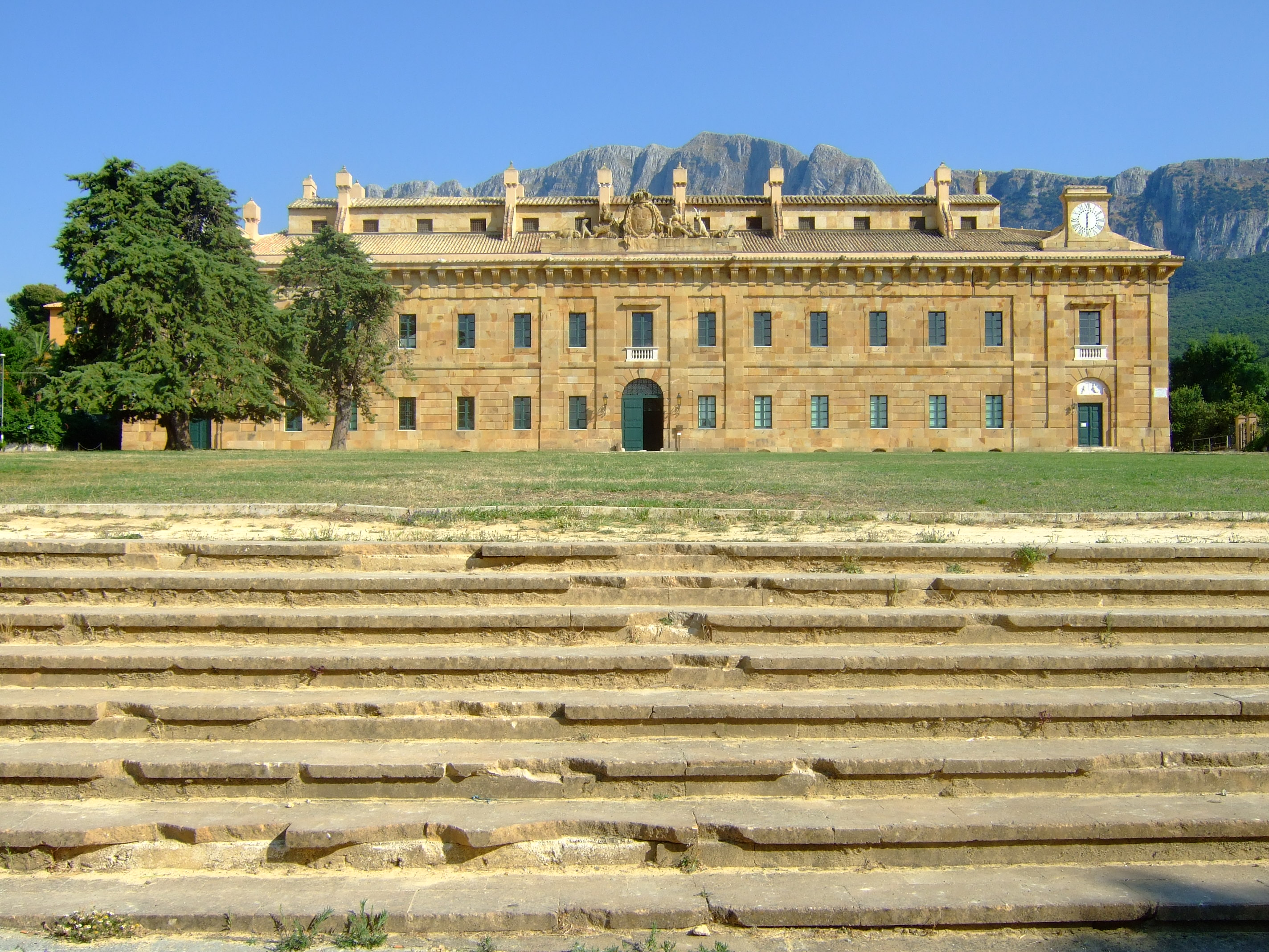 Facade of the Real Casina di Caccia della Ficuzza, frazione of the Comune of Corleone (province of Palermo)